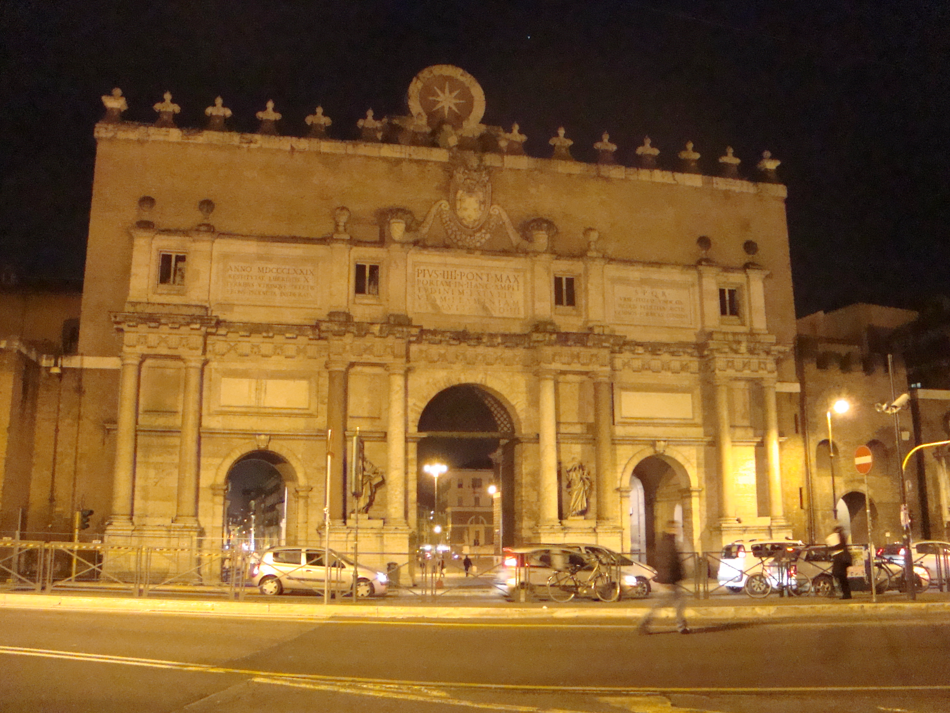 Porta del Popolo or Porta Flaminia in Rome